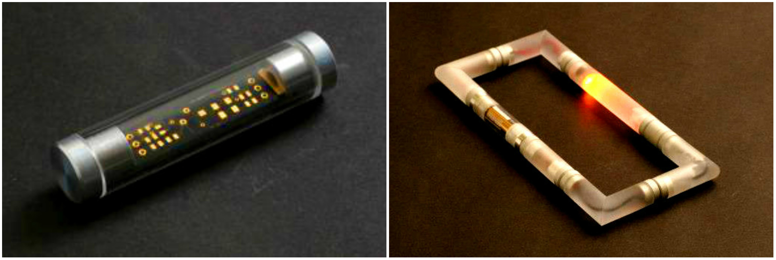 Gold Edition